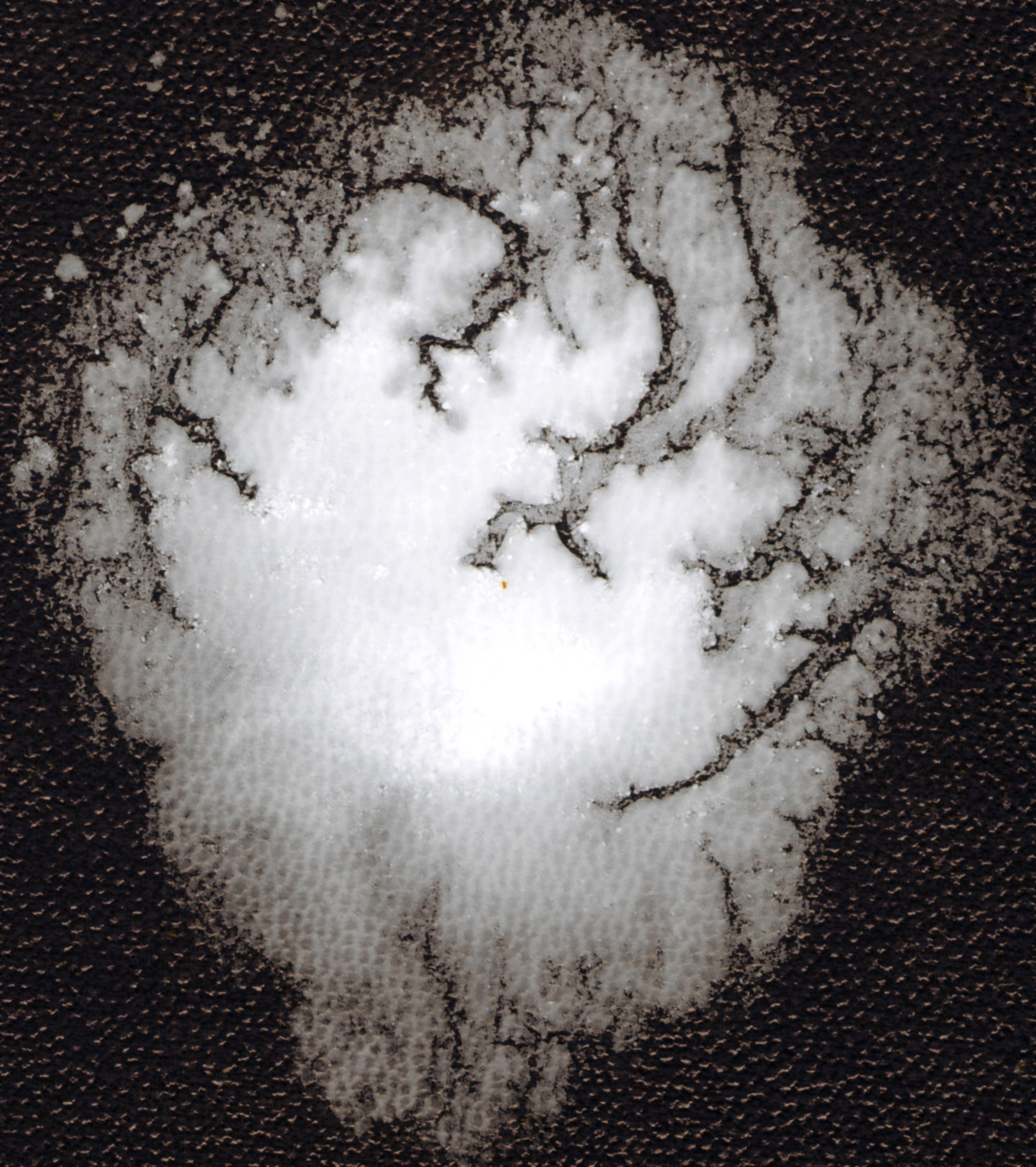 Silicon dioxide powder (silica fume), 130m²/g surface area, placed on the scanner under a blue book, scanned in at 1600dpi.